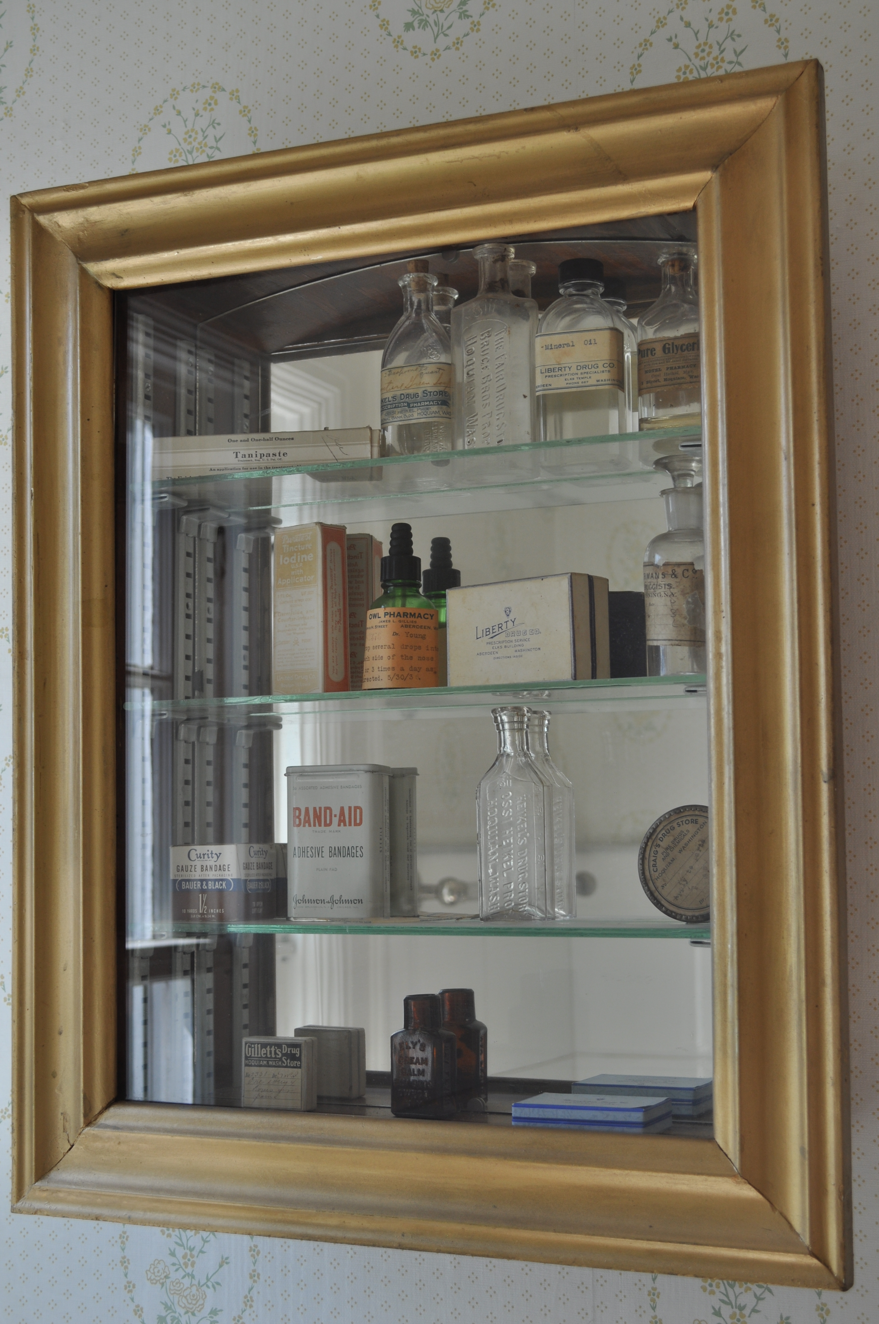 Medicine cabinet of bathroom, Polson Museum, Hoquiam, Washington, USA. Intentionally restored to "period" for the 1924 Polson House.